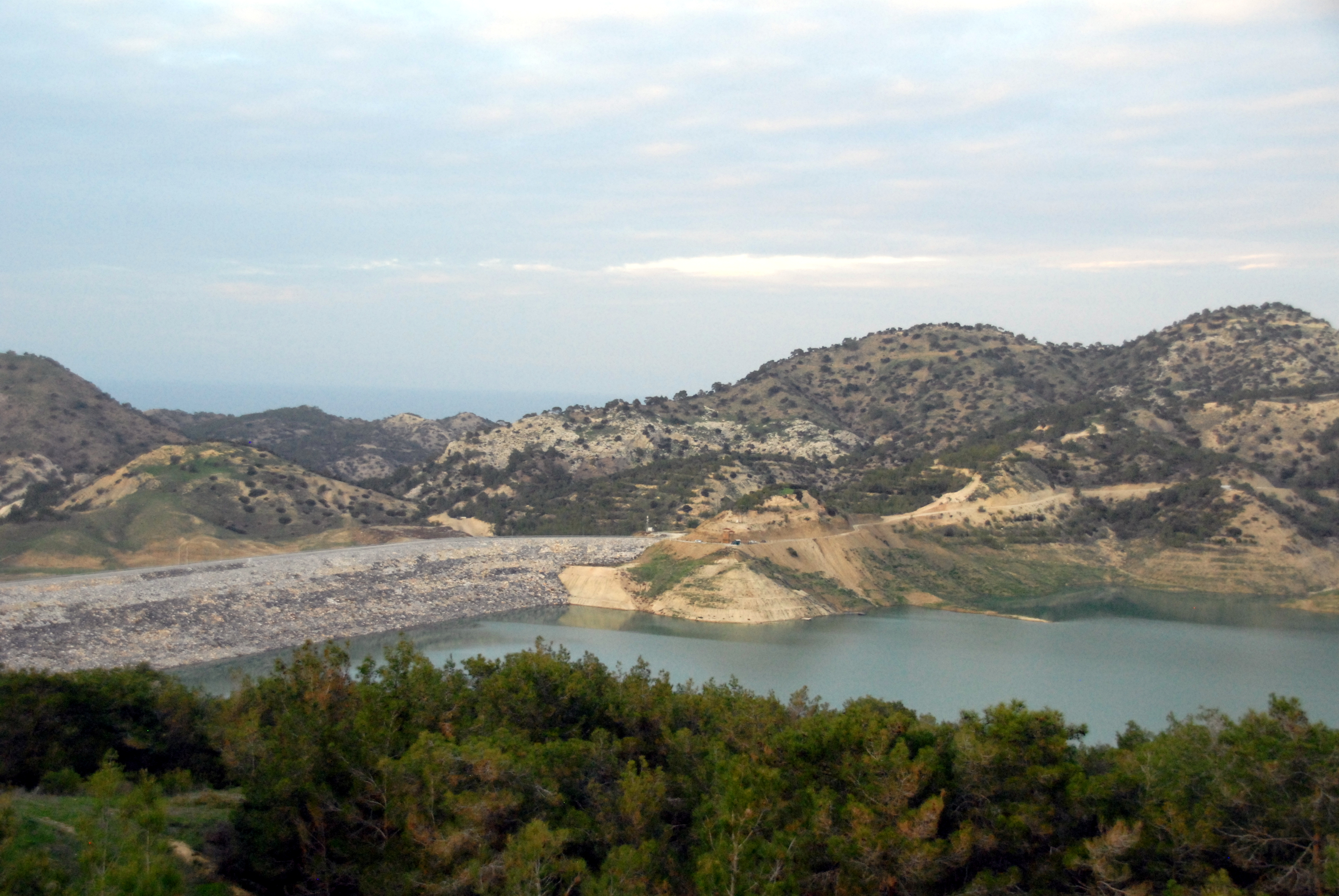 View of the Geçitköy Dam in Geçitköy/Panagra, Kyrenia/Girne District, northern side of Cyprus